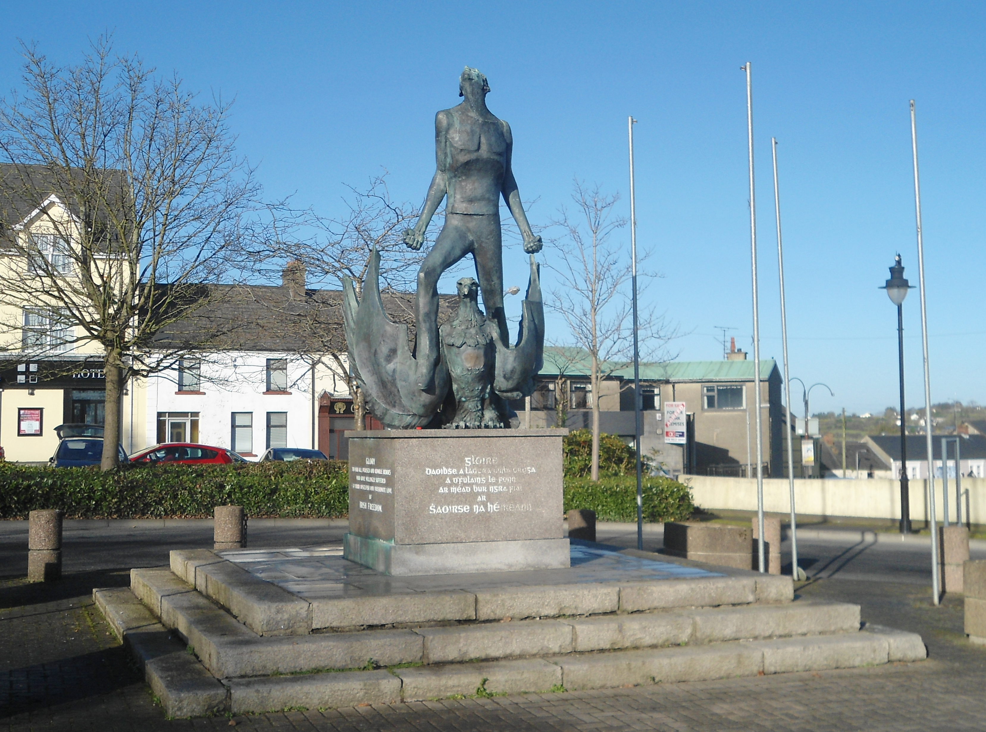 Irish freedom monument